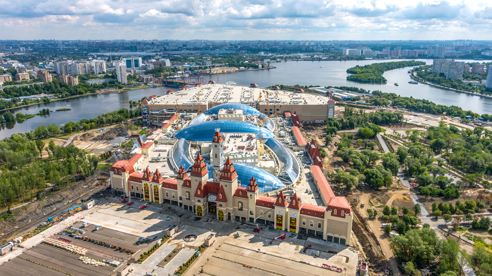 Island of Dreams park in Moscow